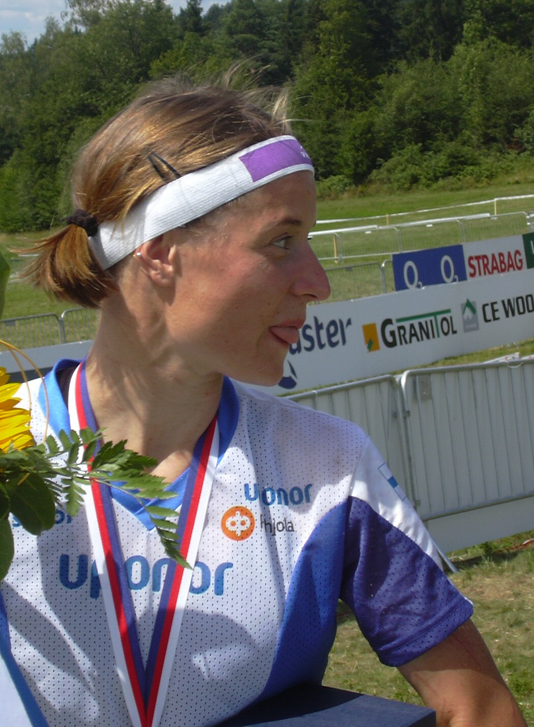 World Orienteering Championships 2008 in Olomouc, Czech Republic. On photo Merja Rantanen.